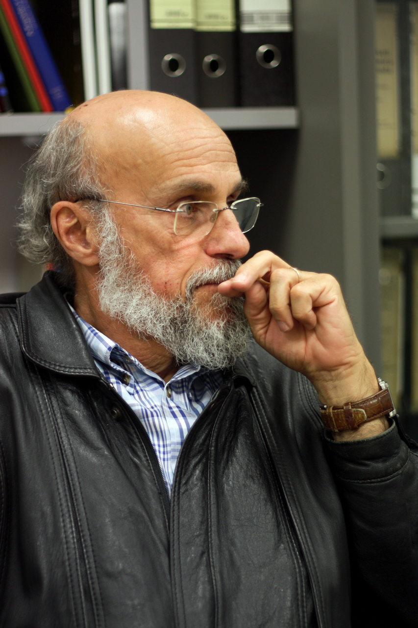 João Brites, Portuguese dramatist.